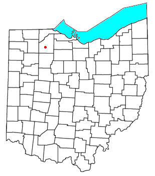 Locator map of the unincorporated community of Rudolph in Wood County, Ohio, United States.